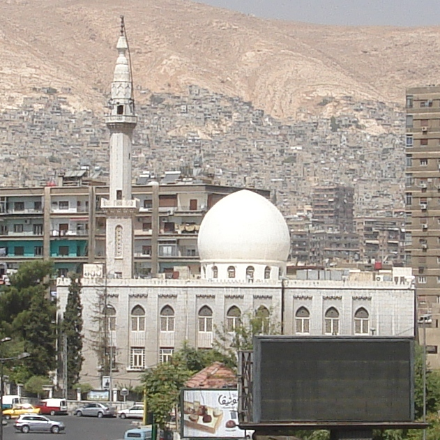 Al-Iman mosque, Mazra`a, Damascus.